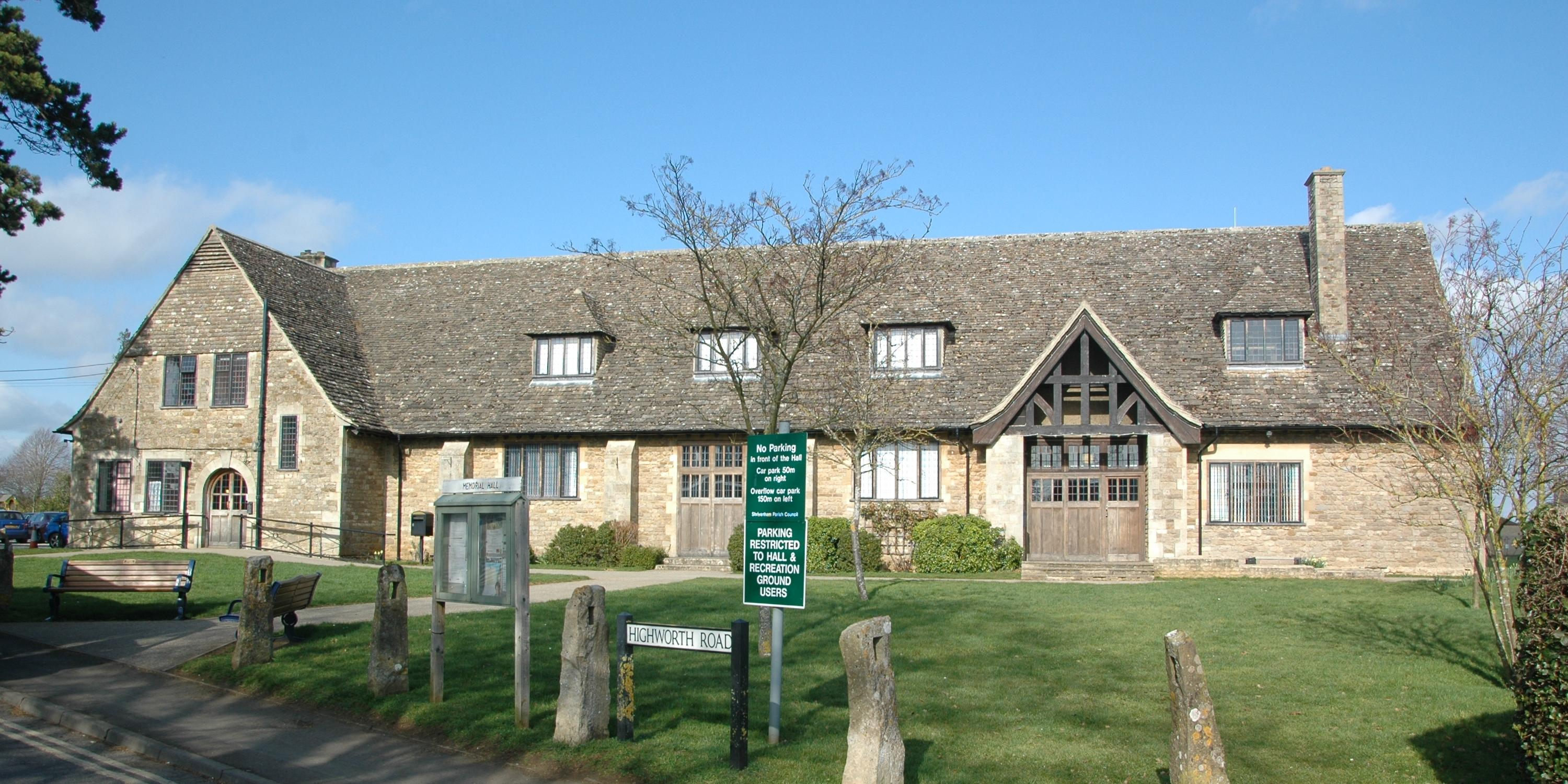 Memorial Hall, Highworth Road, Shrivenham, built 1921-25.